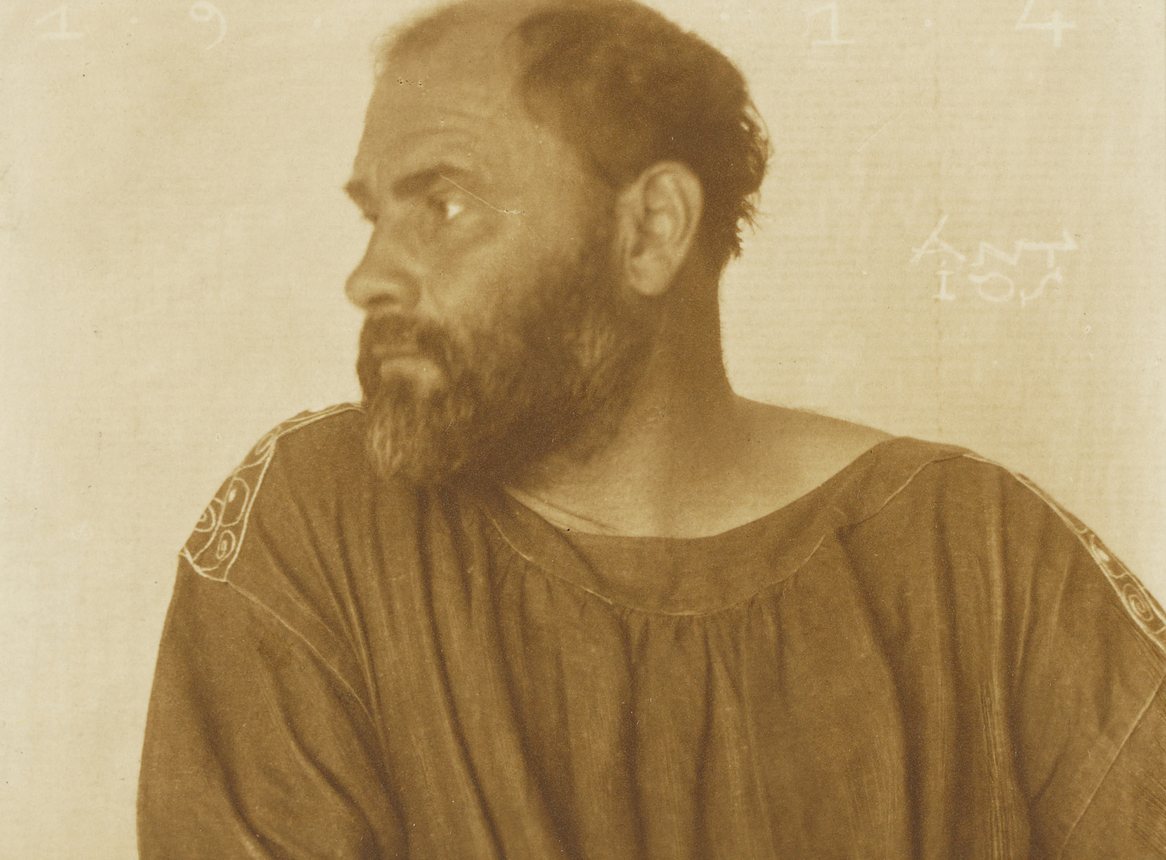 Photo portrait of Gustav Klimt.